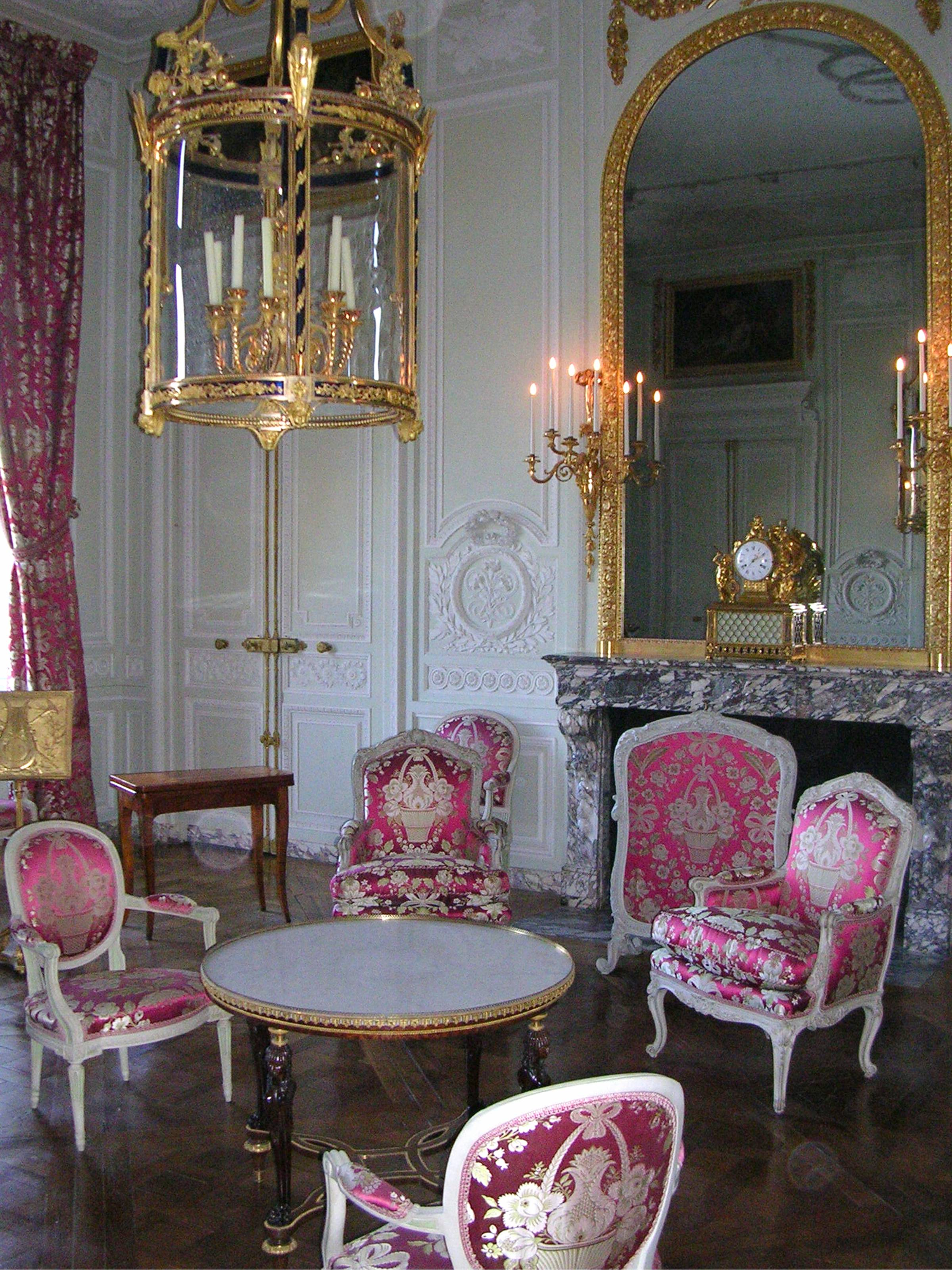 Room photographed by User:Giano correcting simple typo in template!